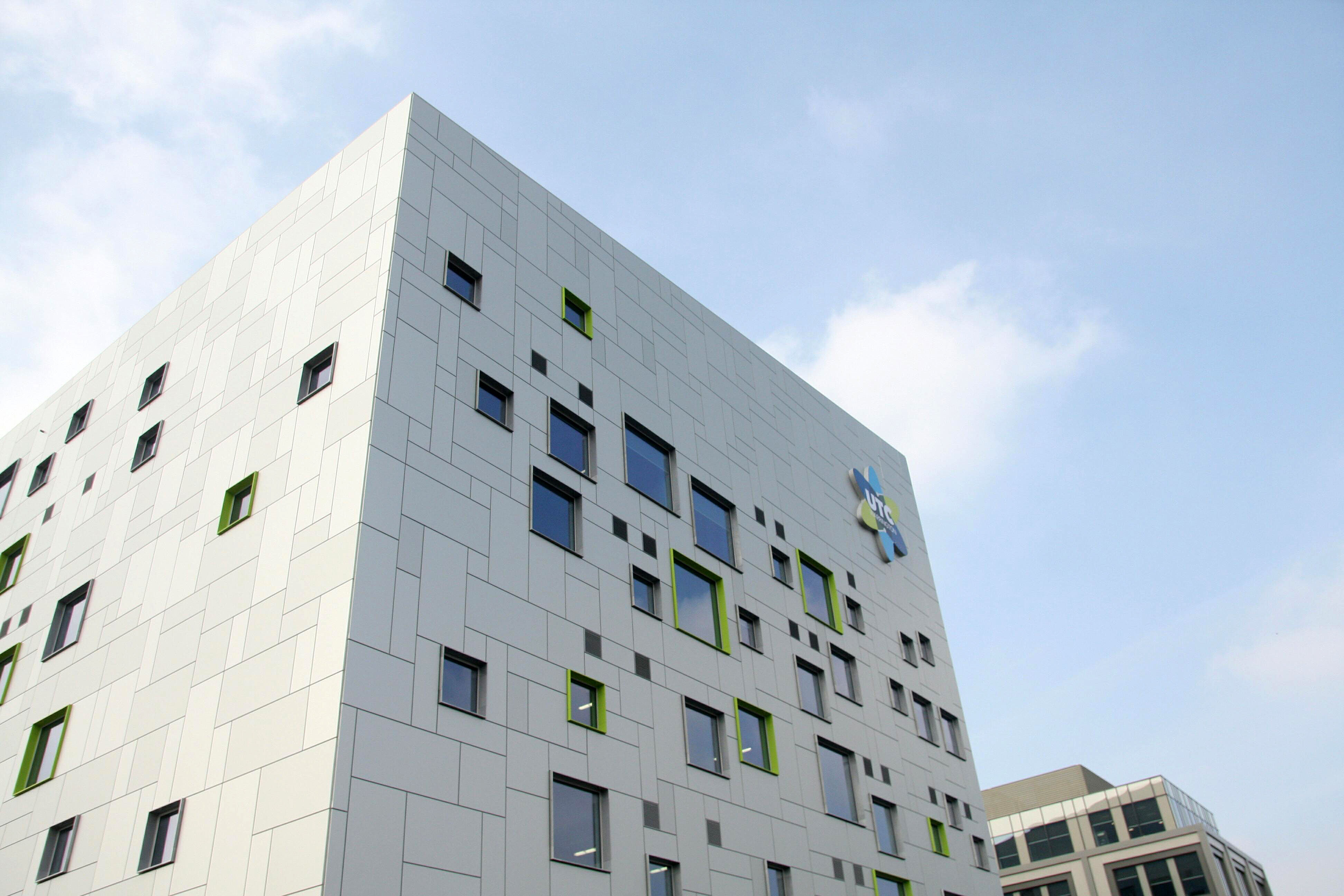 UTC Warrington Building